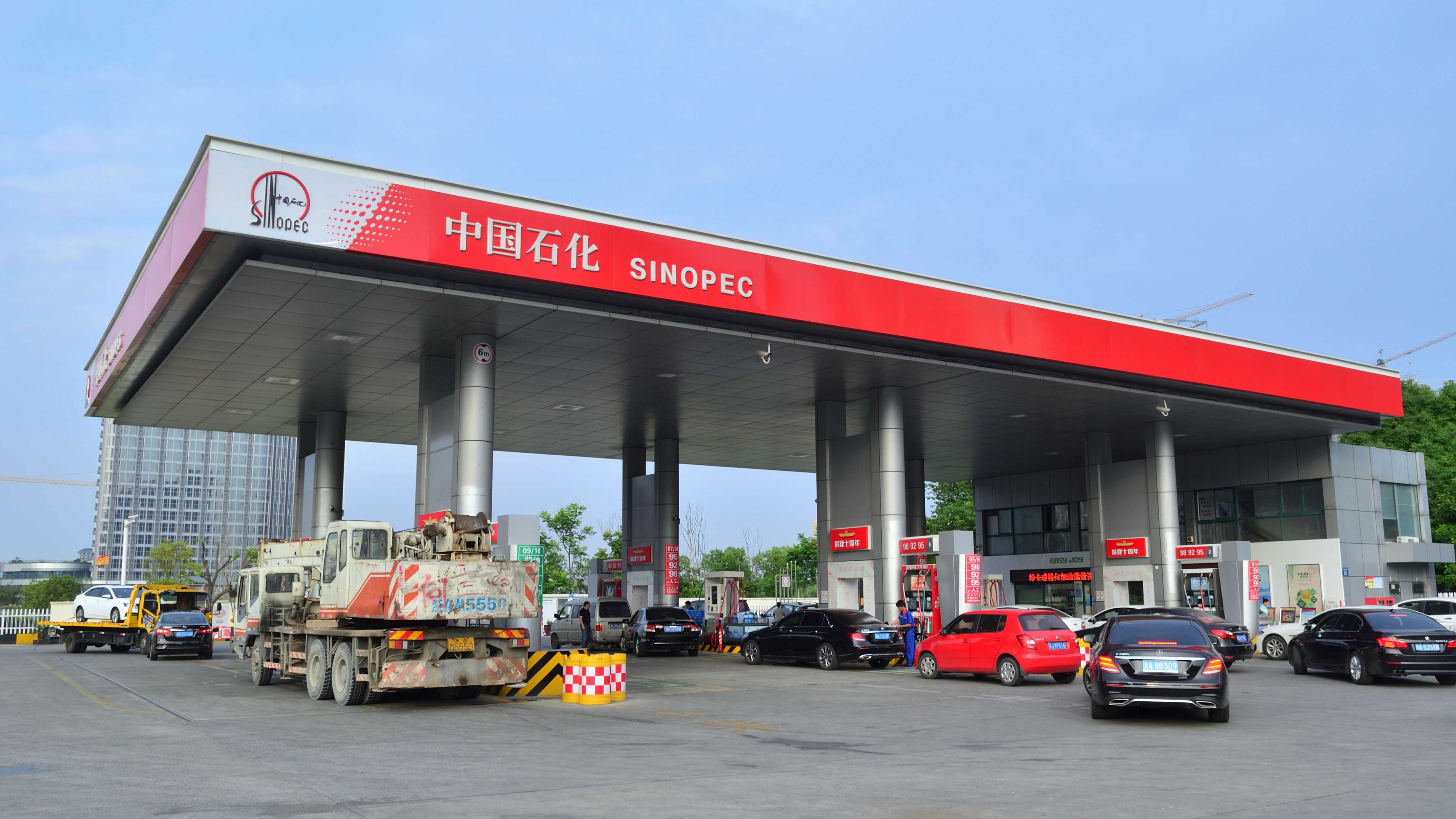 Sinopec gas station in Hangzhou